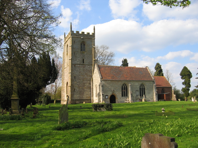 Church of the Nativity of the Blessed Virgin Mary, Studley, Warwickshire, next to The Old Castle